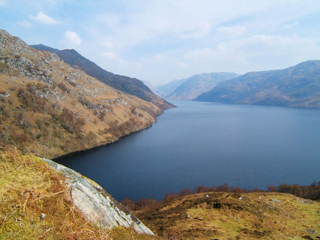 Loch Morar The headland at South Tarbet Bay juts out into the deepest part of Loch Morar. At over 300m deep, you have to go beyond the Hebrides to find deeper water in the Atlantic!